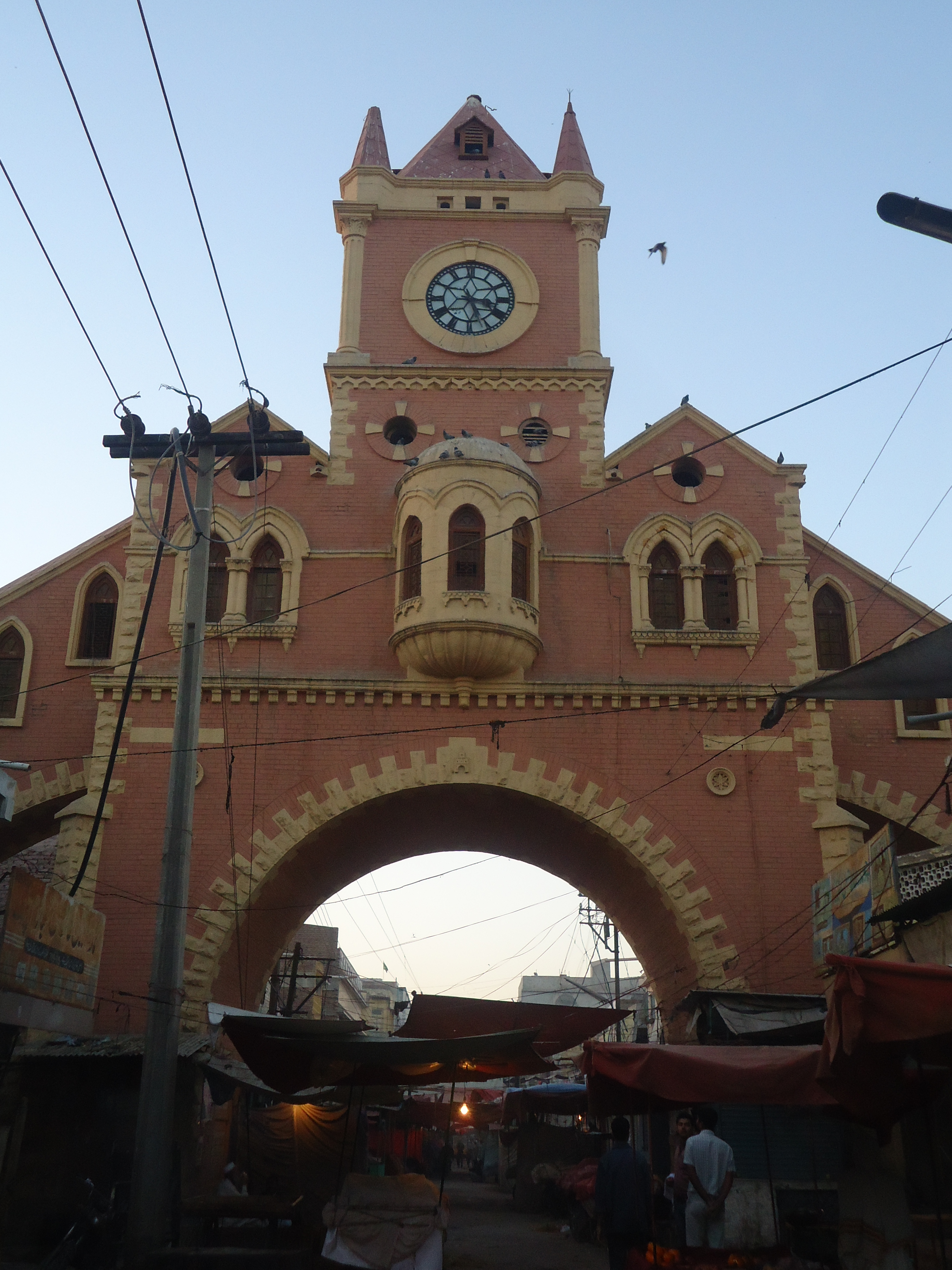 Morning view of Navalrai Market Clock tower situated in Shaahi Bazaar Hyderabad, Pakistan.